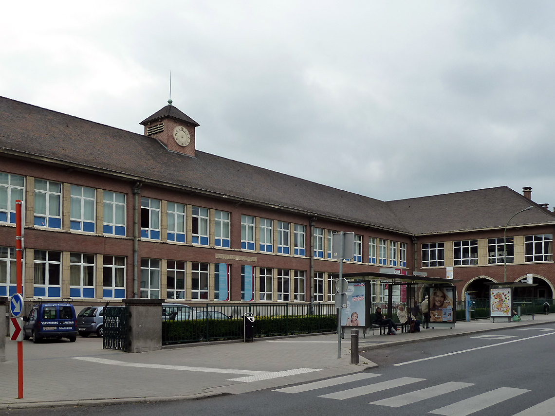 Atheneum Tienen